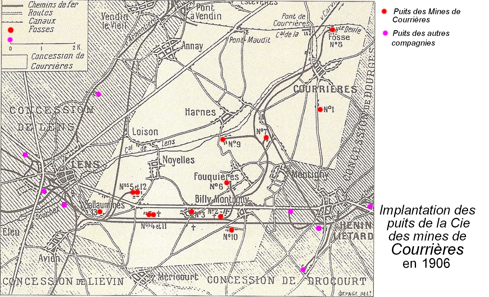 Compagnie des mines de Courrières, France.